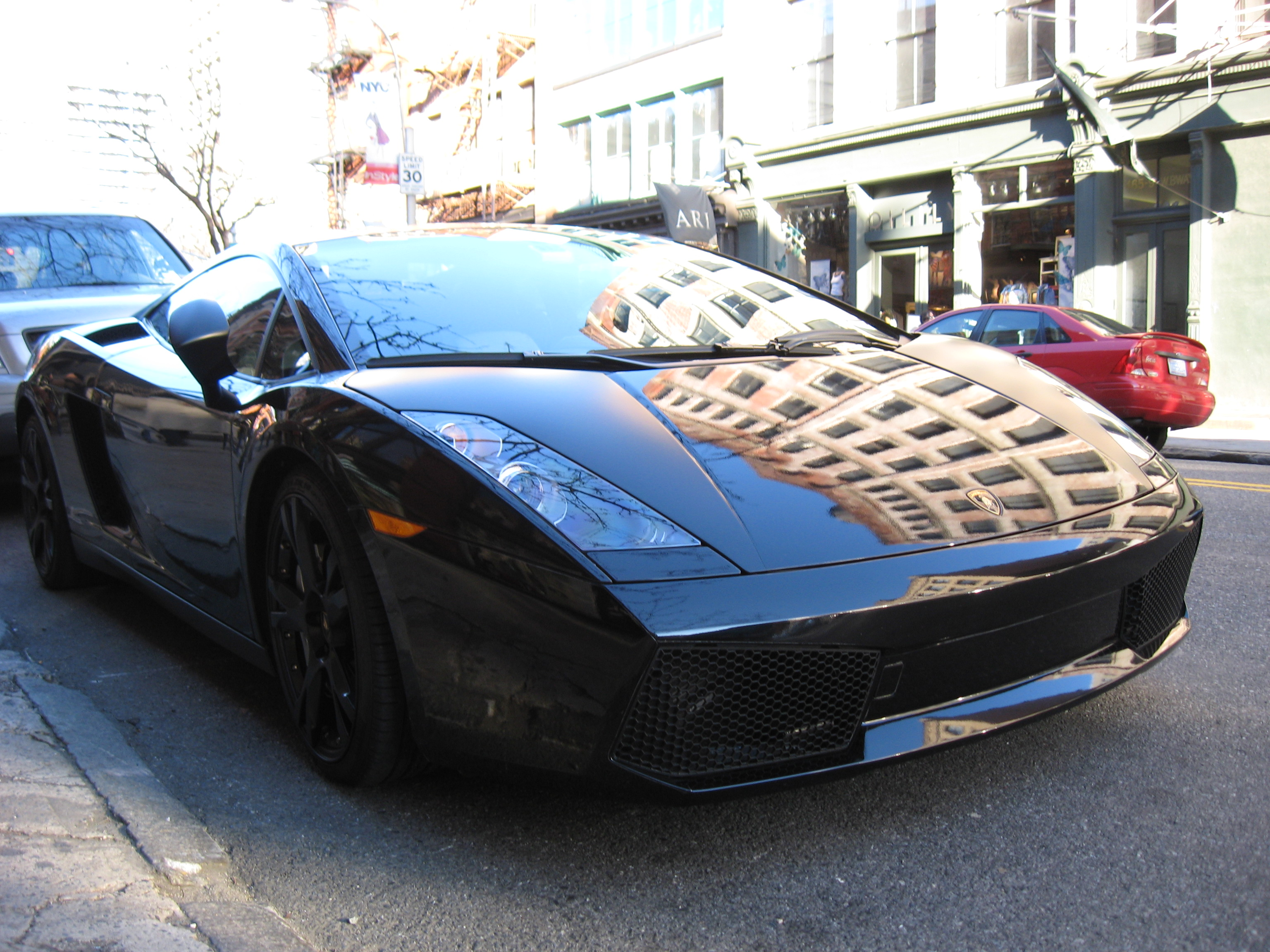 I was amazed to see this Nera, one of only 185 worldwide.